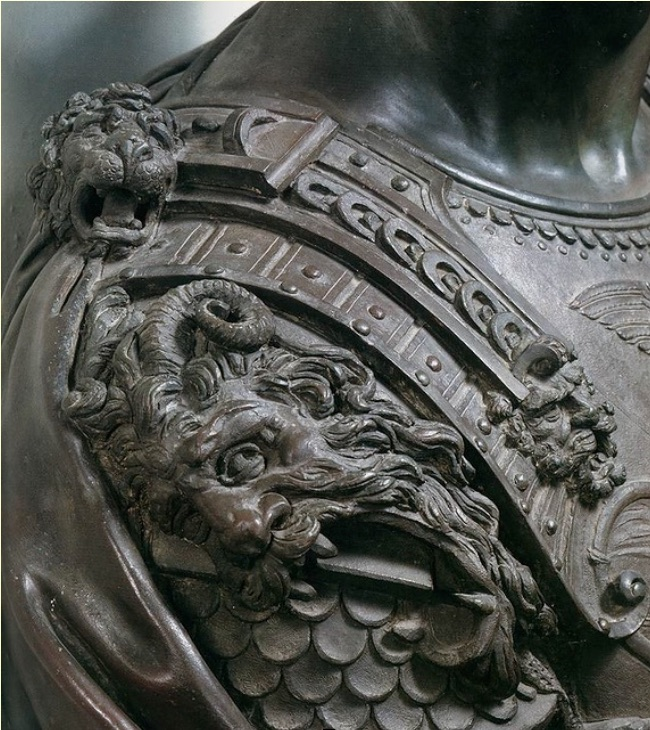 Cellini, Benvenuto. Bust of Cosmo I. Bronze (1545). Bargello Museum, Florence. Detail: Cellini's portrait